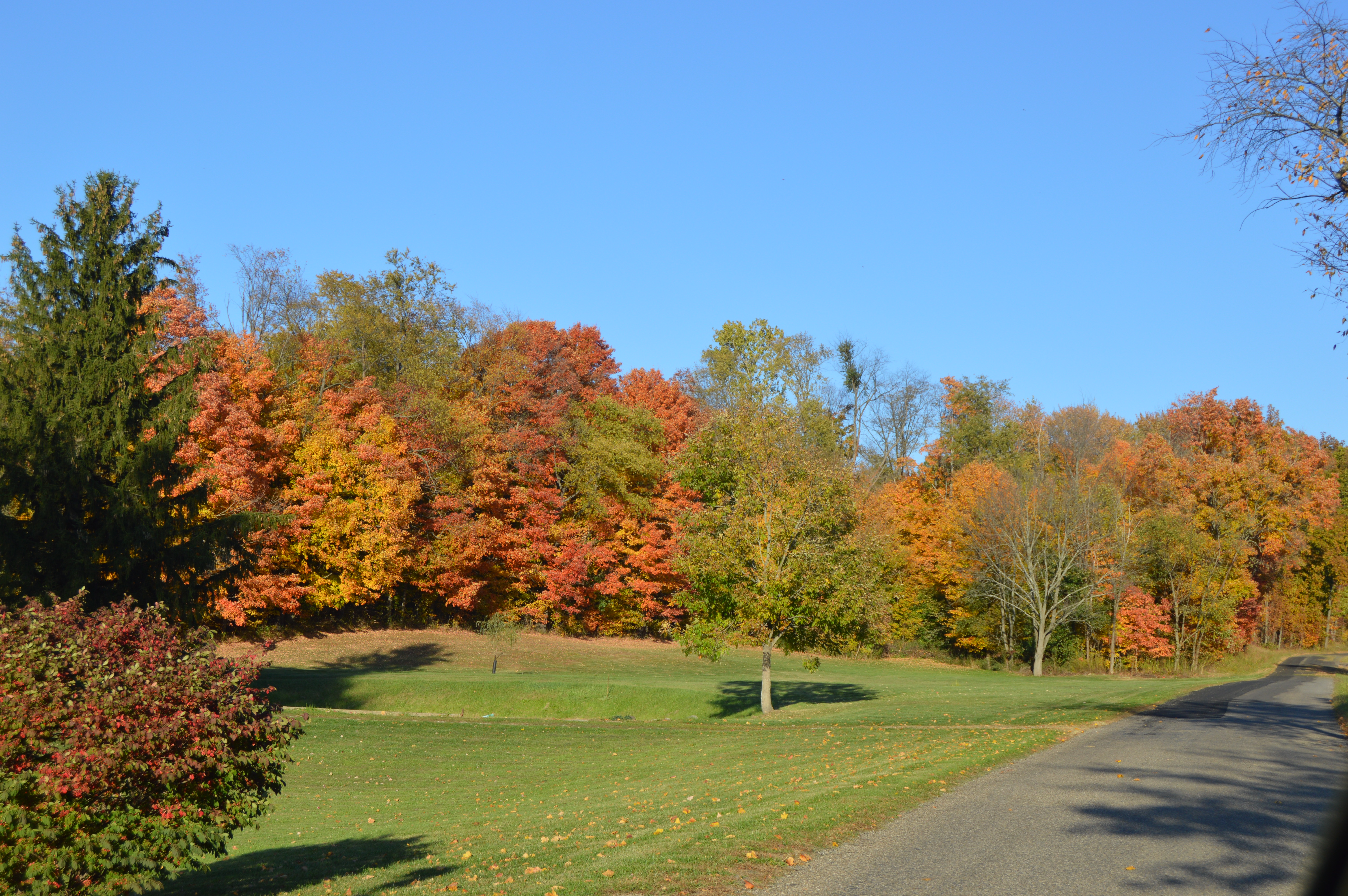 A lawn, a pond, and woods, seen looking northeast from the junction of Township Roads 1097 and 2375 on the western edge of Green Township, Ashland County, Ohio, United States.